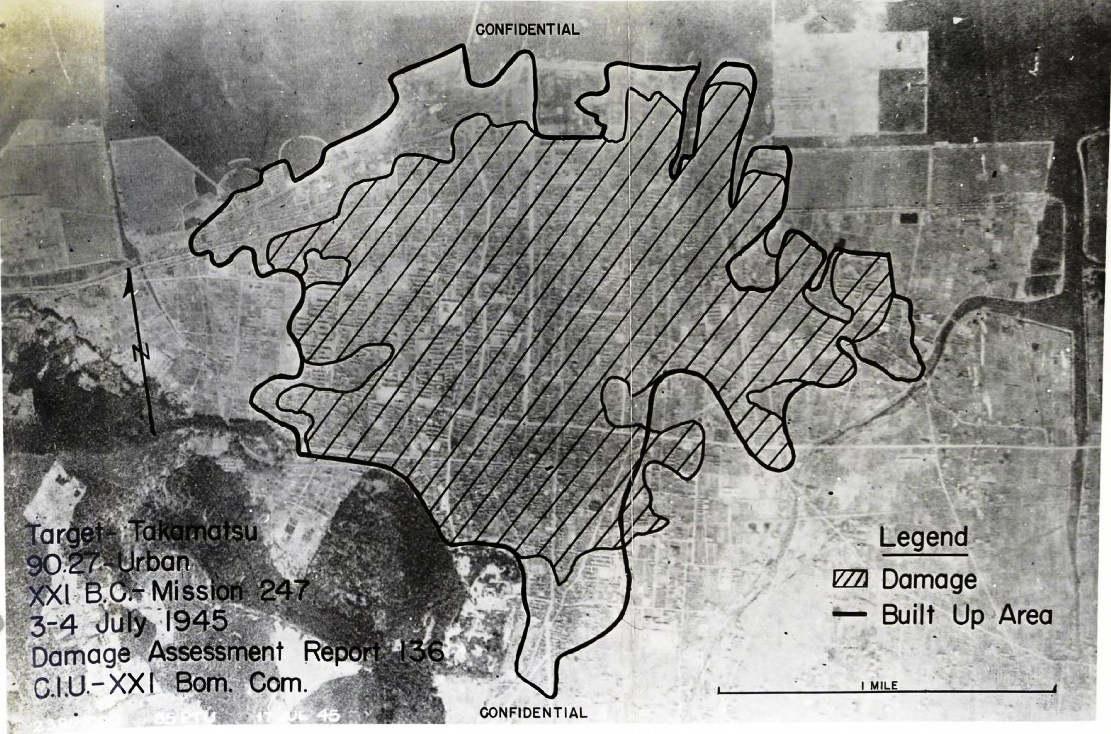 Takamatsu bombing area in 1945. From 21st Bomber Command Tactical Mission Report 247, 250